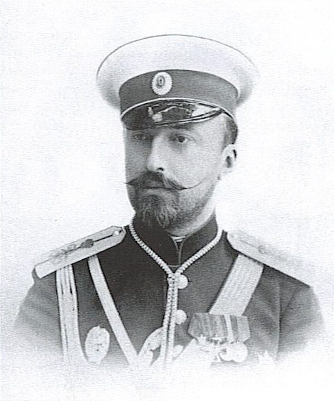 Grand Duke Nicholas Mikhailovich of Russia (1859-1919), young Nikolai Michailowitsch Romanow Nyikolaj Mihajlovics Romanov orosz nagyherceg Nicolaas Michajlovitsj van Rusland Mikołaj Michajłowicz Romanow Николай Михайлович Nikolaj Michajlovič Romanov